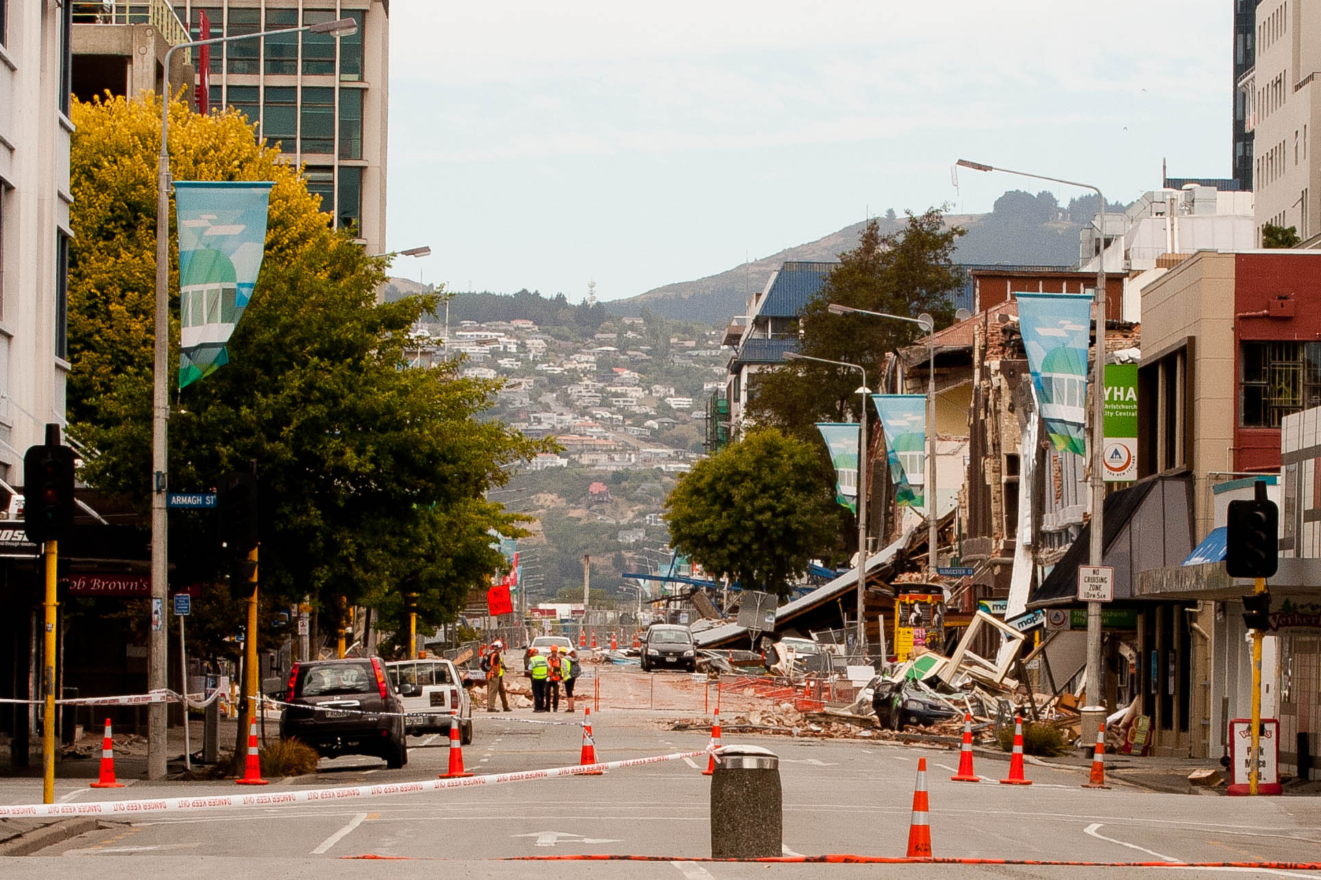 Looking south along Manchester Street, Christchurch, NZ, from north of Armagh Street.